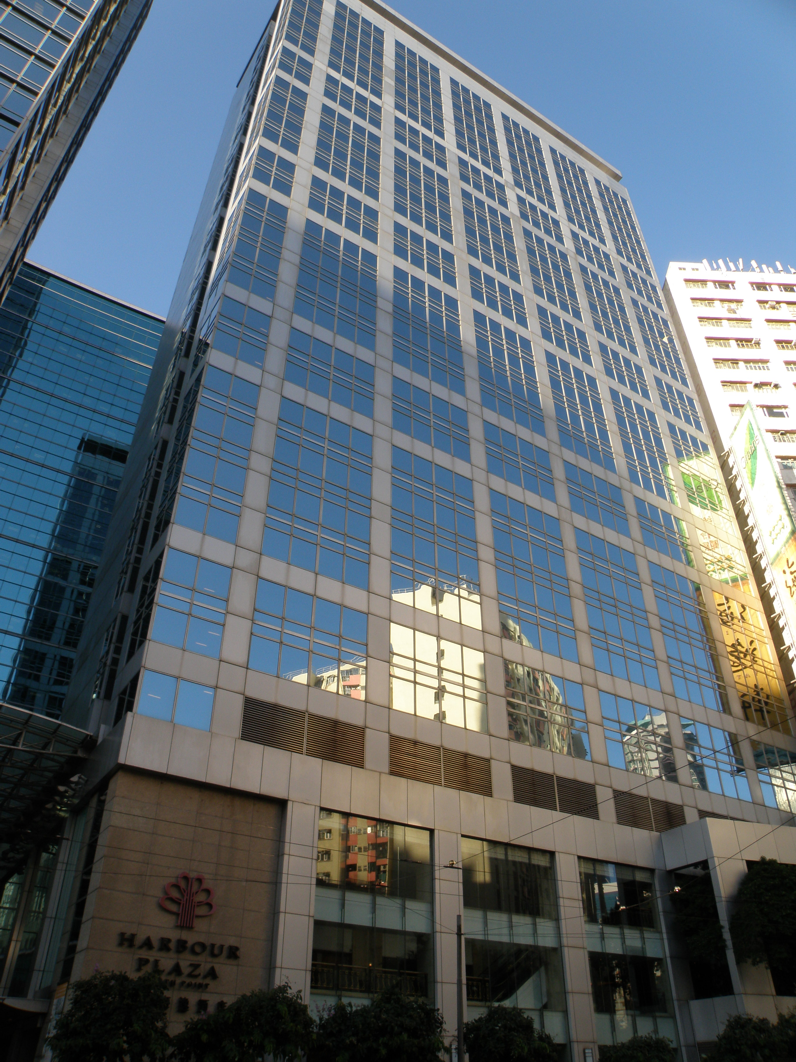 Harbour Plaza North Point hotel (Hong Kong).